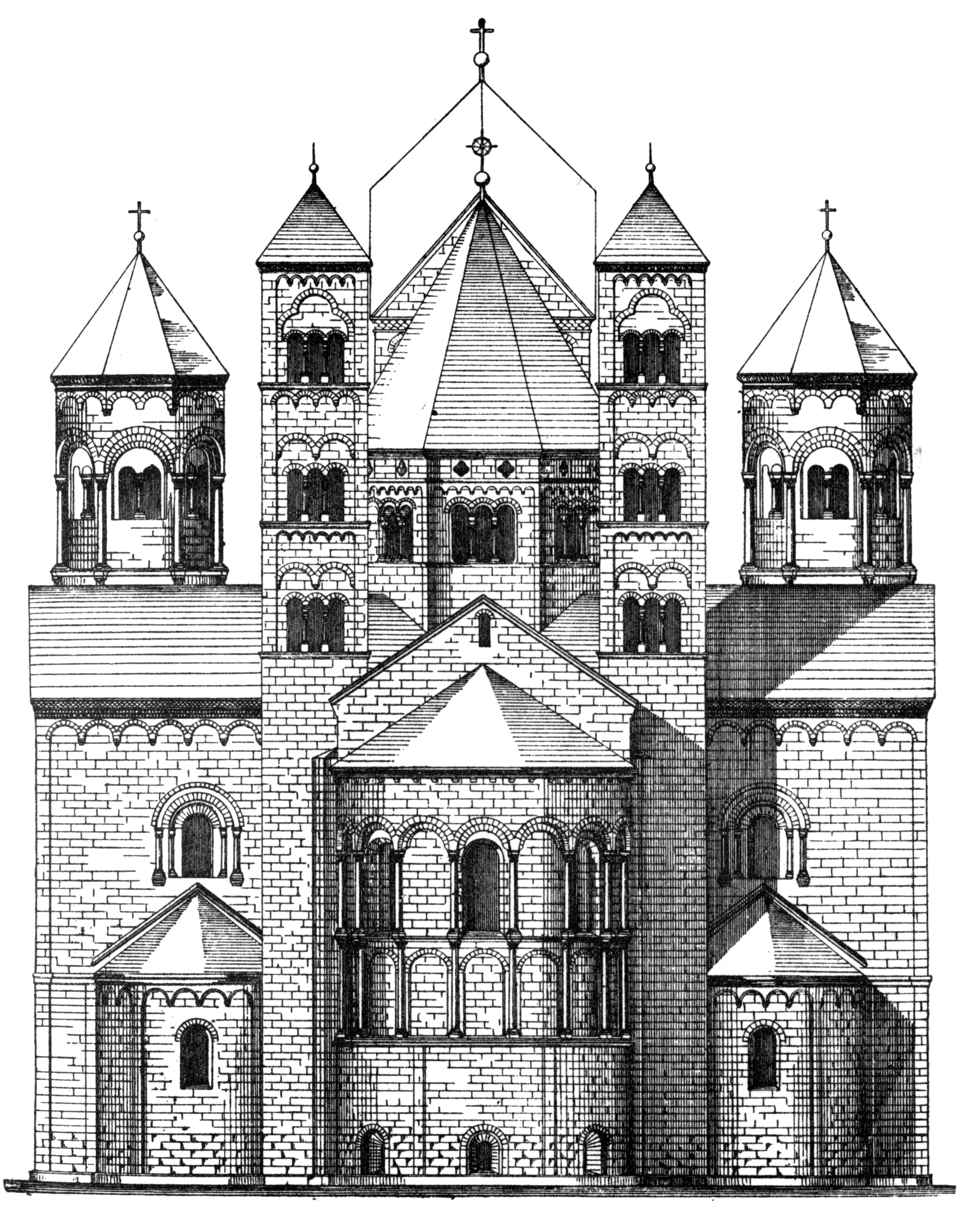 Maria Laach, monastery church, east view.